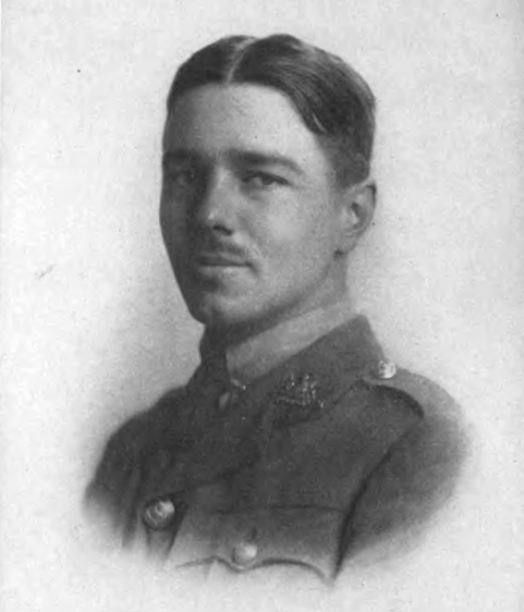 Portrait of Wilfred Owen, found in a collection of his poems from 1920.